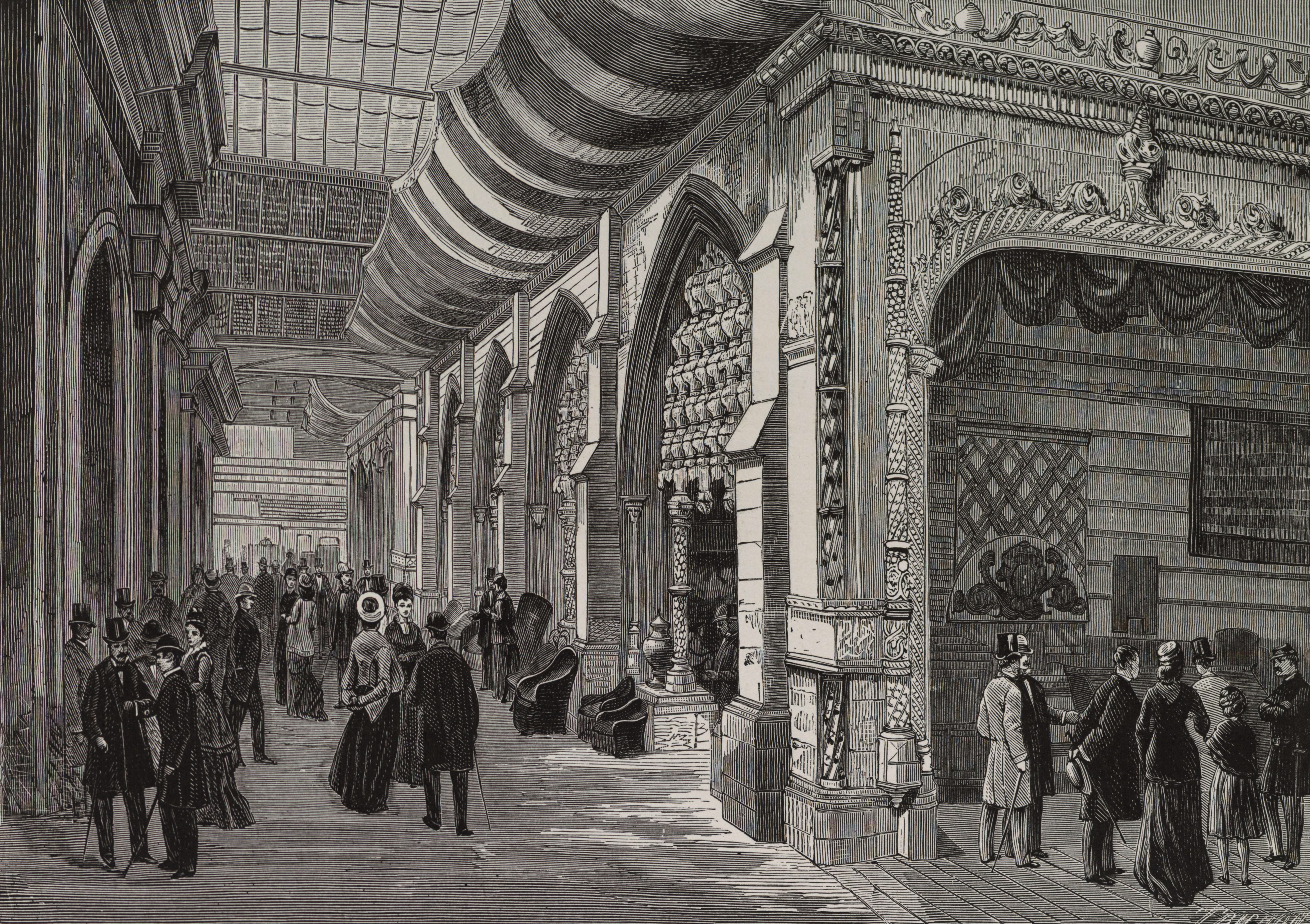 Portuguese section in the Palais du Champ-de-Mars, during the Paris 1878 World Fair. The outside façade of the Portuguese exhibit was modelled after the Batalha cloisters, which had been built by the Dominicans in the South of the country at the end of the fourteenth century. The late gothic style that characterized the original building would have been particularly appreciated at the time of the fair, since European nineteenth-century architecture had been influenced by a renewed taste for the gothic.